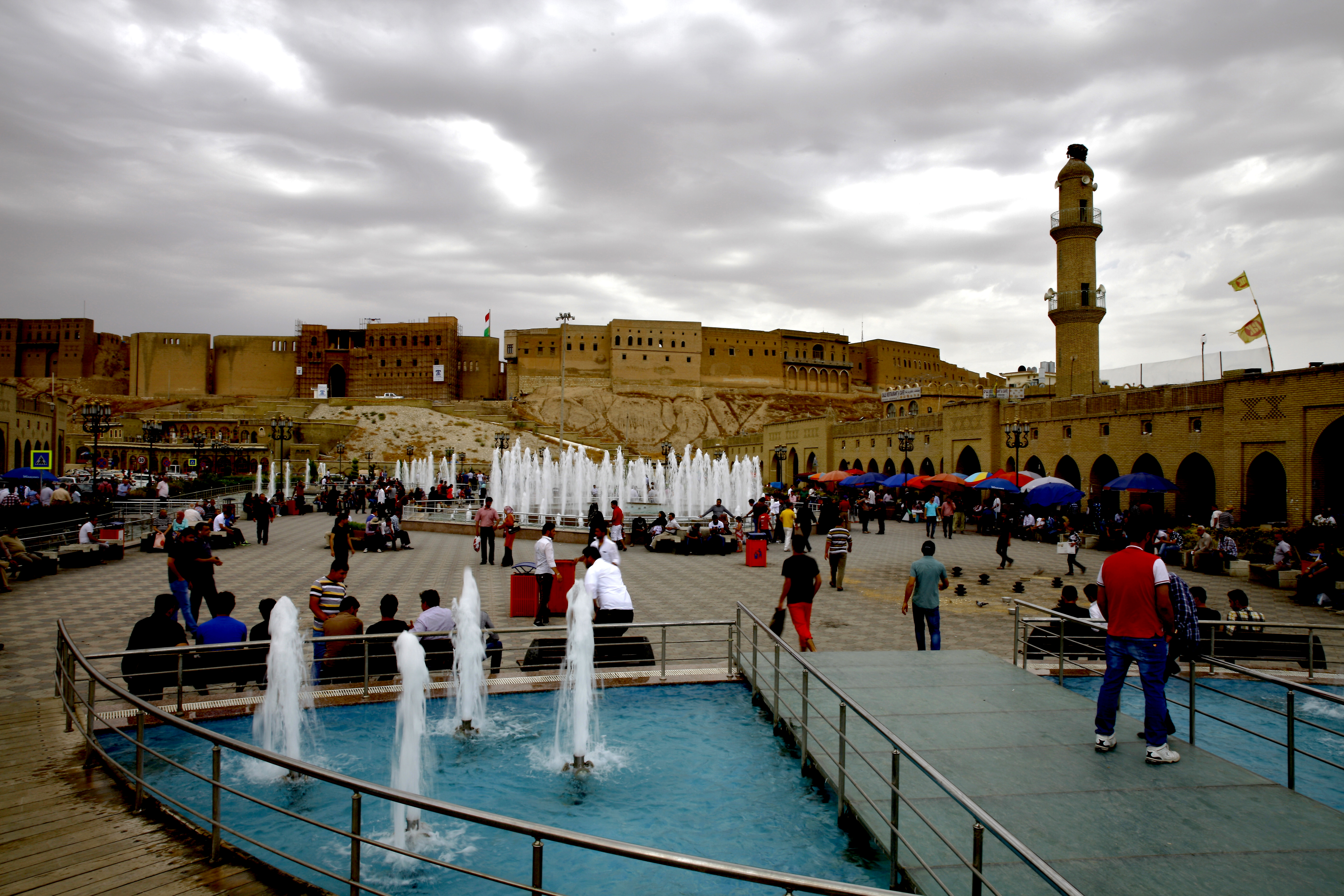 The Citadel, Erbil, Kurdistan Region of Iraq